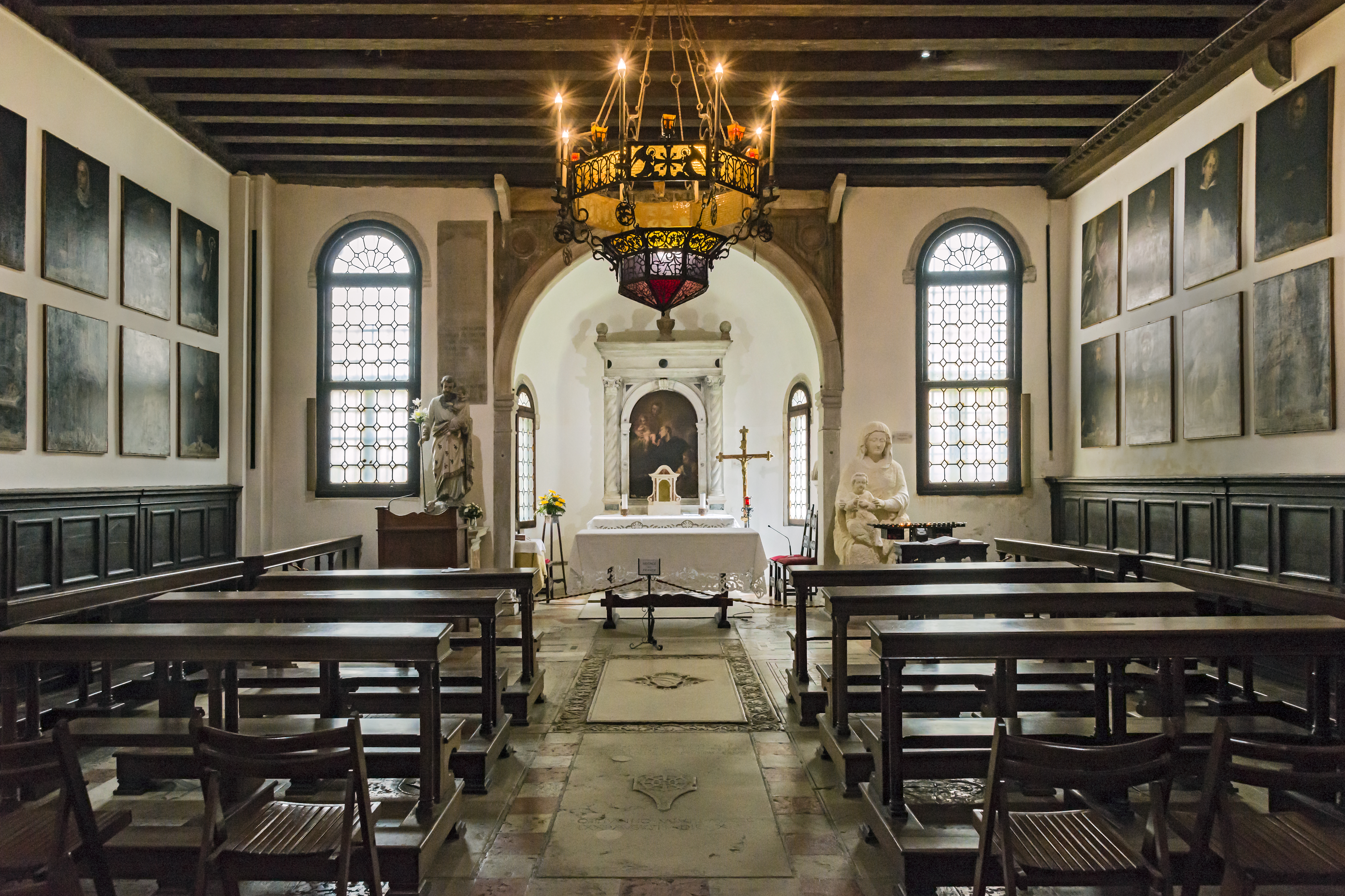 Madonna dell'Orto, Venice - Madonna dell'Orto (Venice) - Chapel St.Mauro